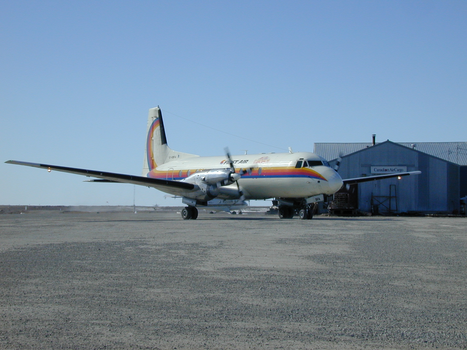 C-GBFA First Air HS748 (A748) Aircraft no longer registered in Canada Picture taken 14th June 1999 at 18:46 MDT (15th June 1999 00:46Z) at Cambridge Bay Airport, Nunavut, Canada